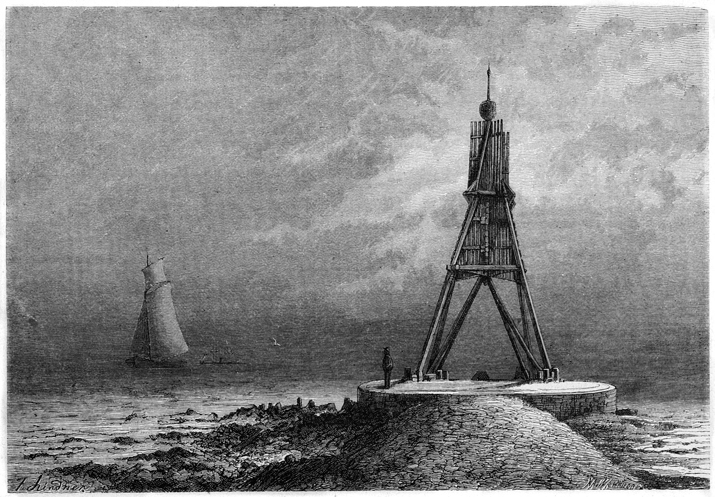 caption: "Kugelbaake an der Elbmündung.Originalzeichnung von Ferdinand Lindner (1842–1906) DescriptionGerman painter, illustrator, landscape painter and authorDate of birth/death 15 June 1842 6 May 1906Location of birth/death Dresden CharlottenburgAuthority control : Q1405561 VIAF: 96009178 ULAN: 500049209 GND: 1068224738 RKD: 225836 creator QS:P170,Q1405561"